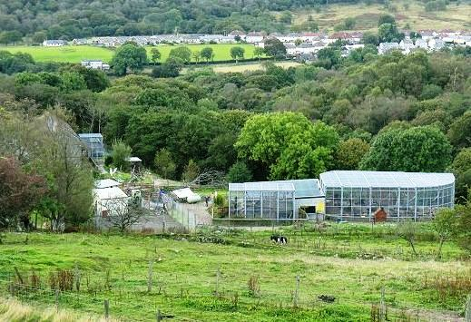 Cropped image of the Wales Ape and Monkey Sanctuary near Abercrave, Wales